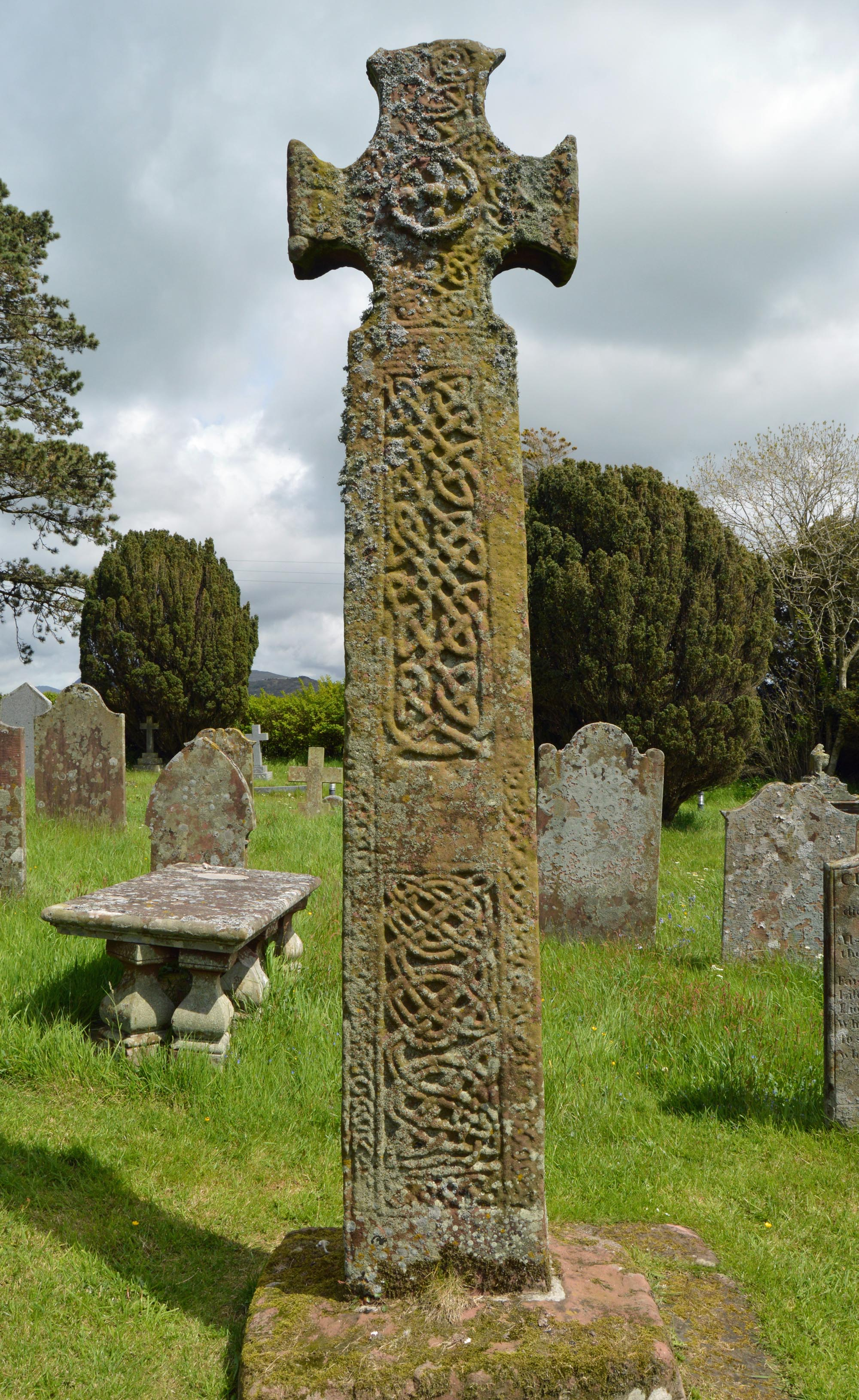 Anglian high cross in the graveyard of St Paul's church, Irton, Cumbria.